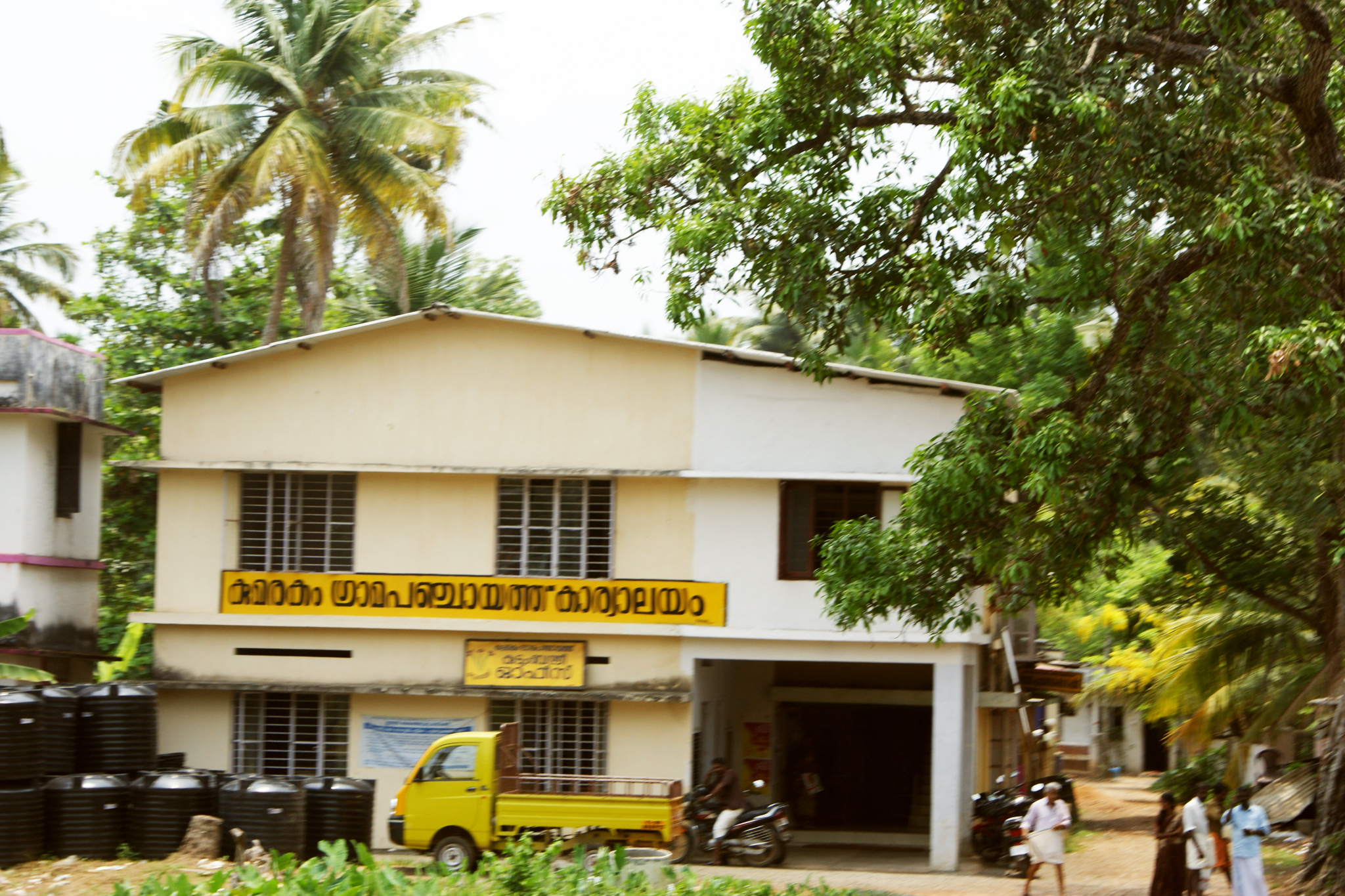 Kumarakom Grama Panchayathu Office